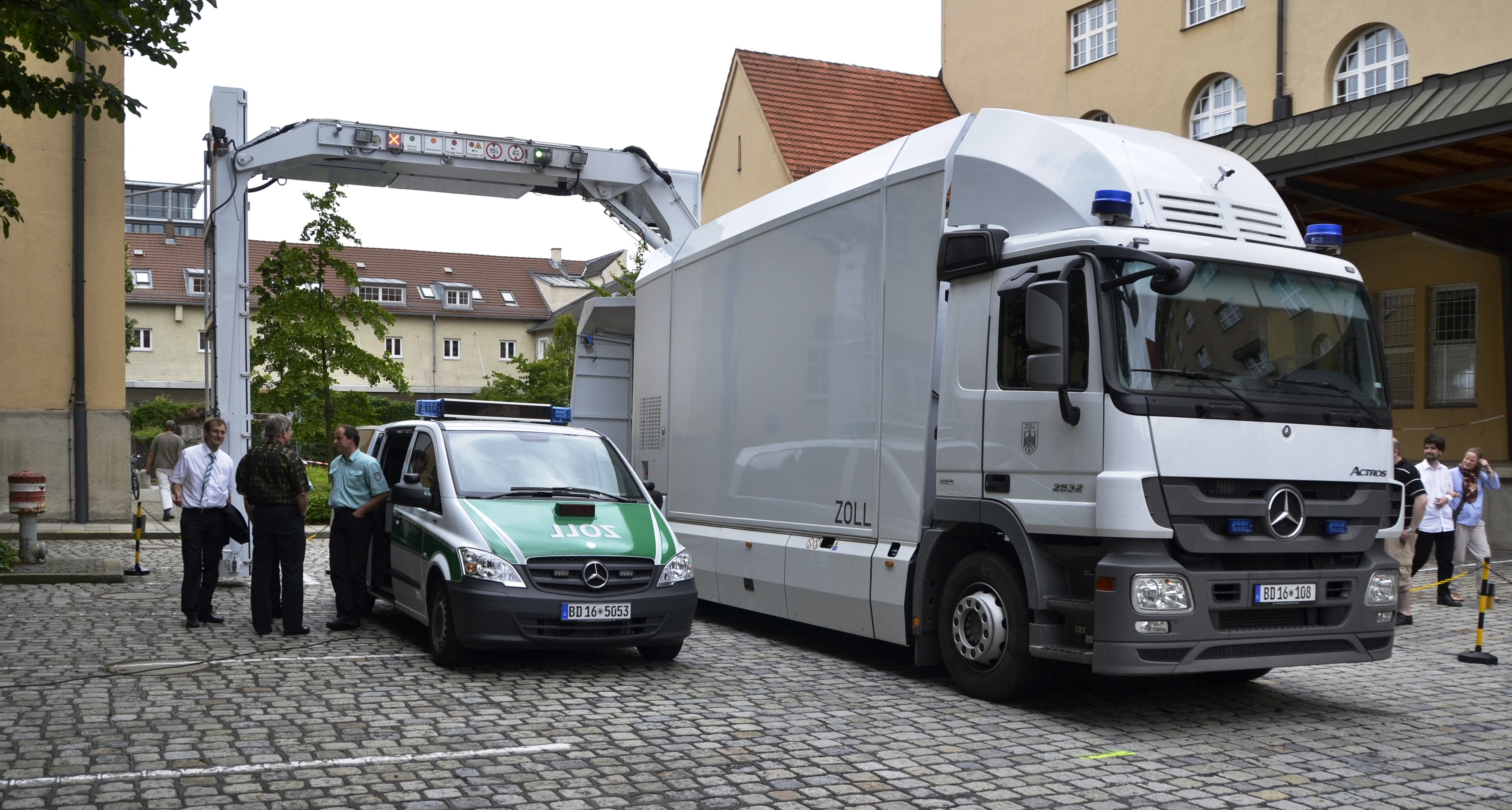 A mobile x-ray unit to scan whole trucks and busses by the German Customs Service. Shown at the Main Custom Office in Munich in 2012.